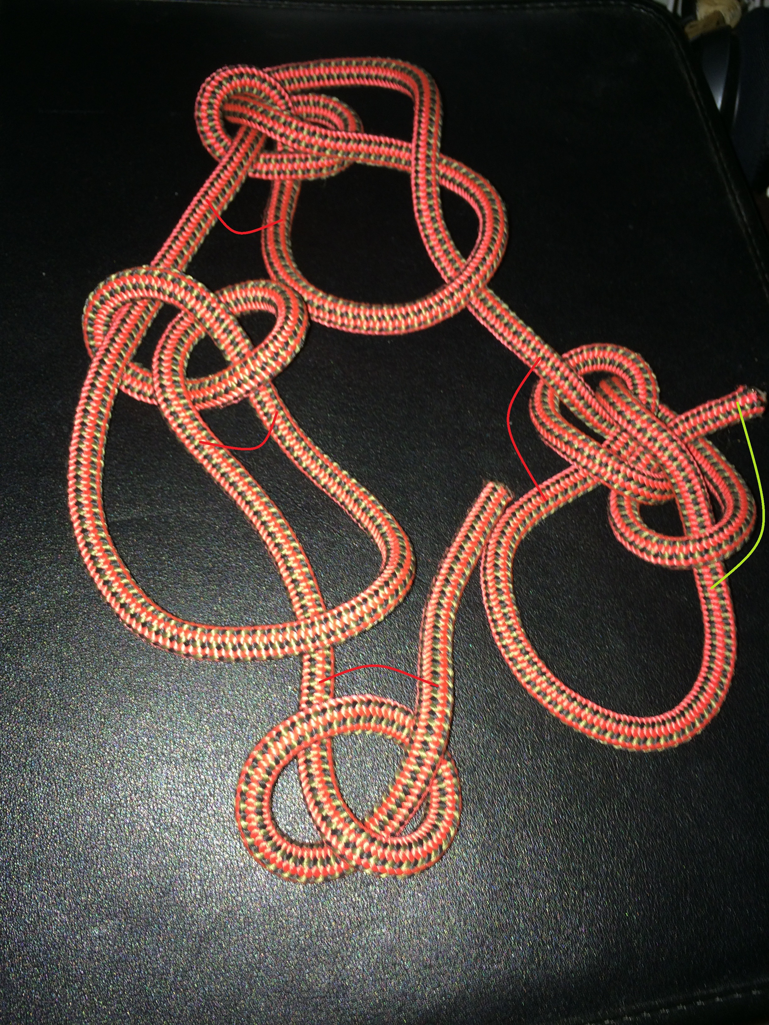 Tying the Zeppelin loop using the clover method: the four stages of the method starting with a clover at 6 o'clock; letting the working end pass in the following order through i) first the eye of the clover (overhand knot) on the main part side along with the main part (thus forming the loop) ii) first the eye of the clover (overhand knot) on the main part side along with the main part (thus forming the loop) iii) then the loop itself opposite the direction of the main part iv) and last the other eye of the clover knot in the opposite direction of the exiting working end (or loop side). The thin red lines indicate ends of the overhand knot one starts with, and the thin green line at 3 o'clock indicates the ends of the underhand knot formed in the last three steps